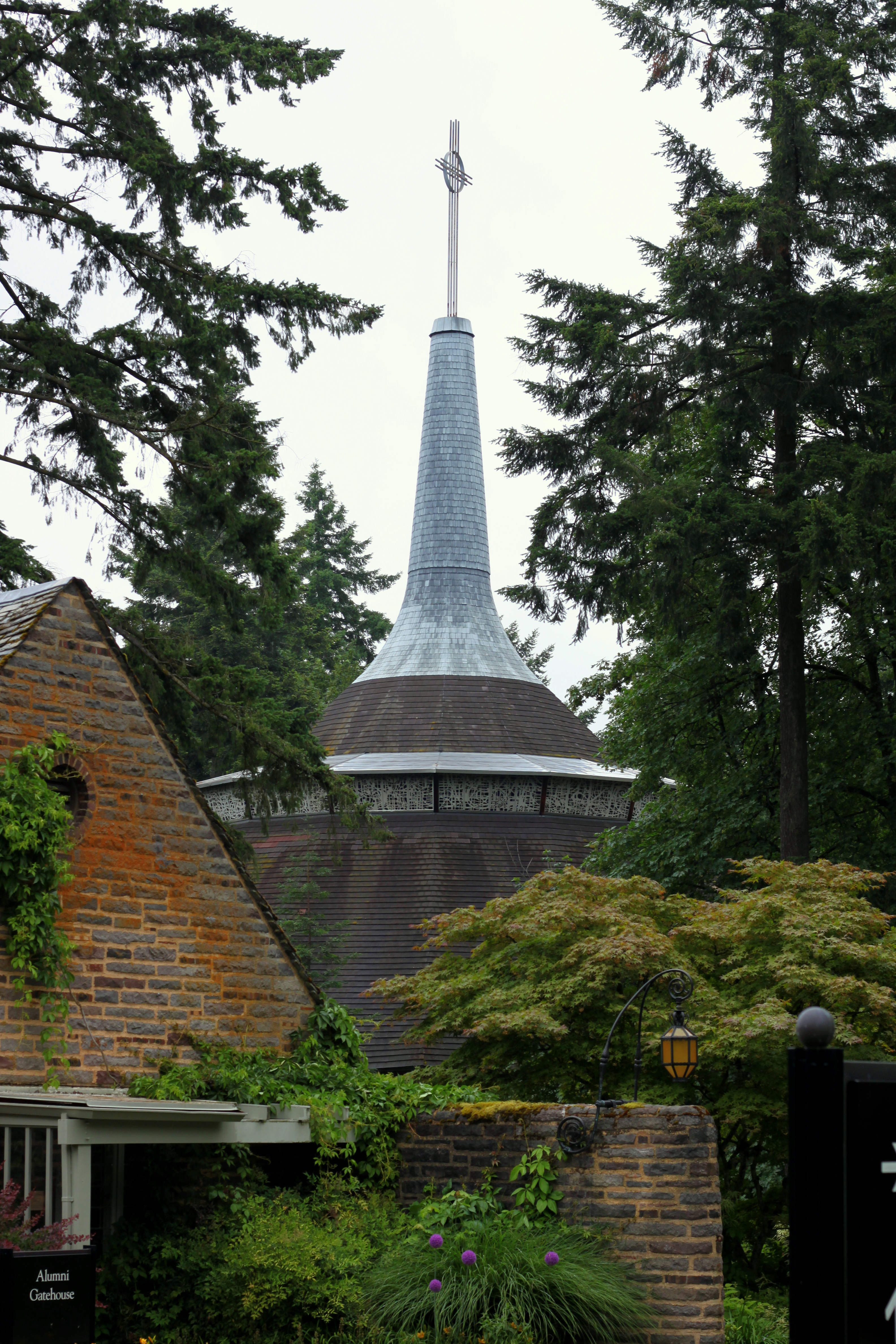 Flanagan Chapel at Lewis & Clark College in Portland, Oregon.